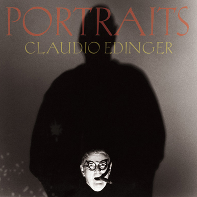 Livro Portraits